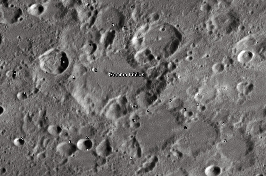 Gemma Frisius lunar crater as seen from Earth with satellite craters labeled